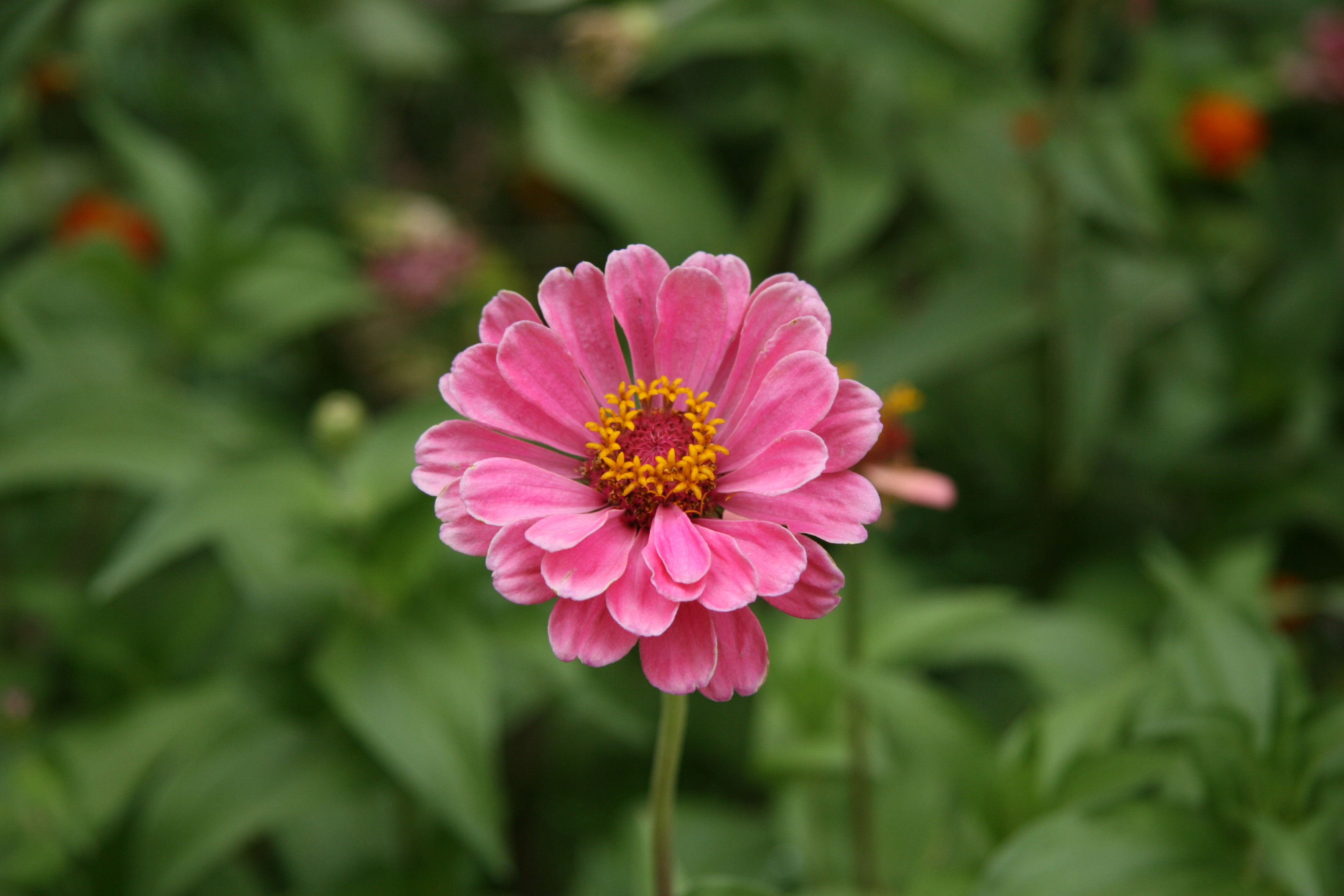 Pink Zinnia Flower focus. Green Background.